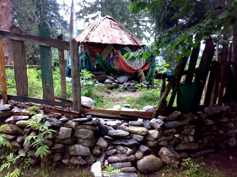 One of the famous shrines of Gurez. Baba Razzaq was brother of Baba Darvaish